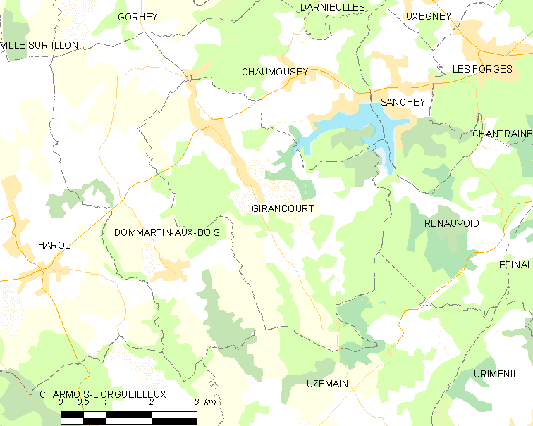 Map of French municipality Girancourt